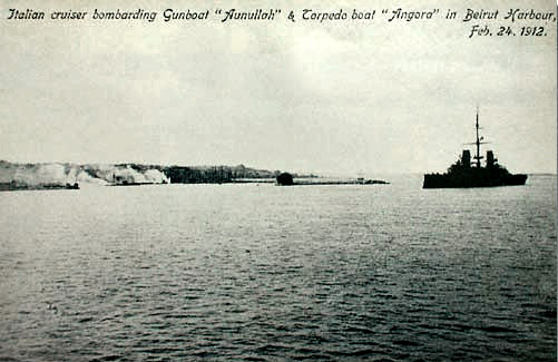 Italian cruiser bombarding Gunboat Avnillah & Torpedo boat Angora in Beirut Harbour, Feb. 24, 1912.